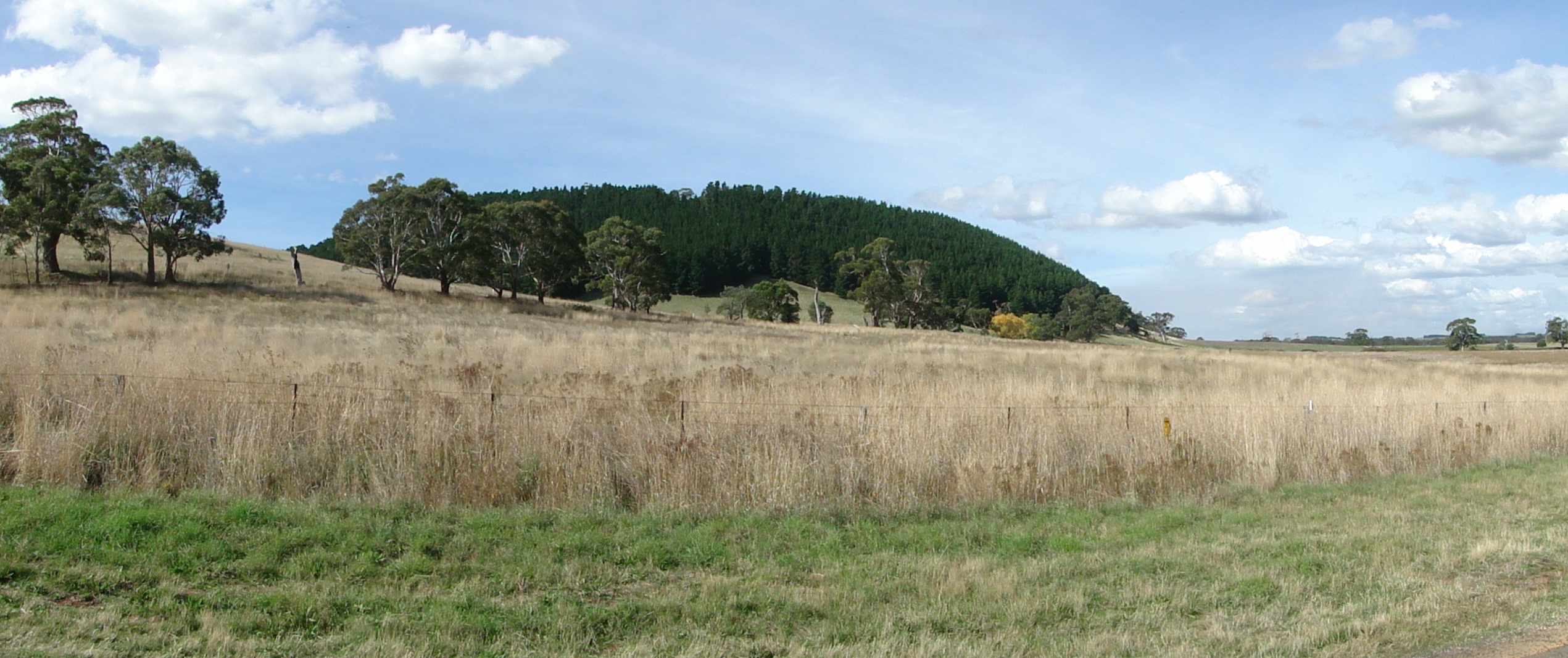 A view of Mount Franklin, Victoria, Australia, an extinct volcano, as seen from the Castlemaine-Daylesford road.